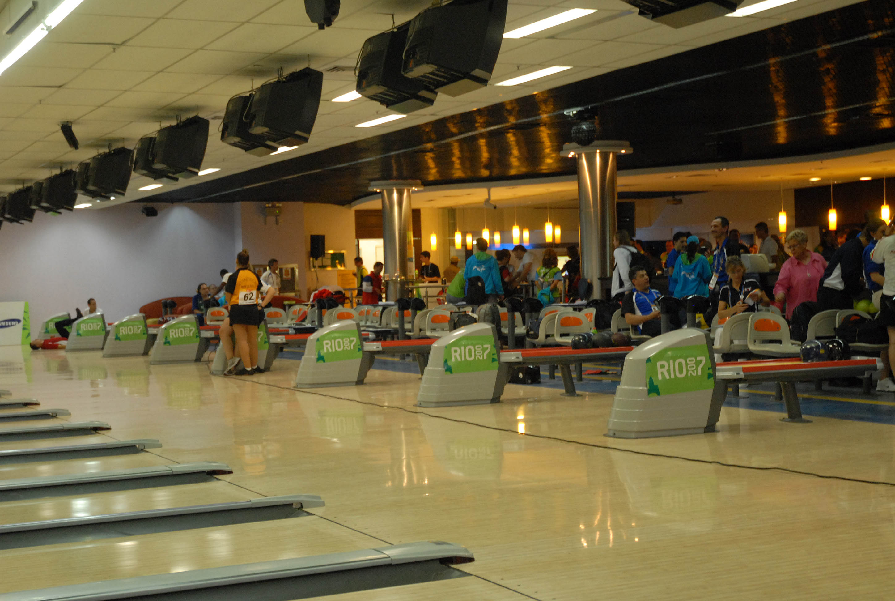 Barra Bowling, venue of the Bowling tournament of the 2007 Pan American Games in Rio de Janeiro